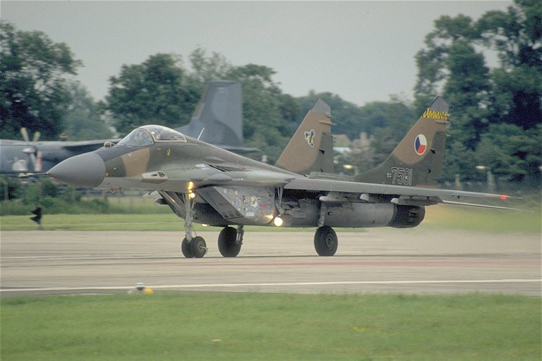 Czechoslovak Air Force MiG-29A 'Fulcrum' during 1991 International air Tattoo at RAF Fairford. (Photo courtesy of Tim Beach